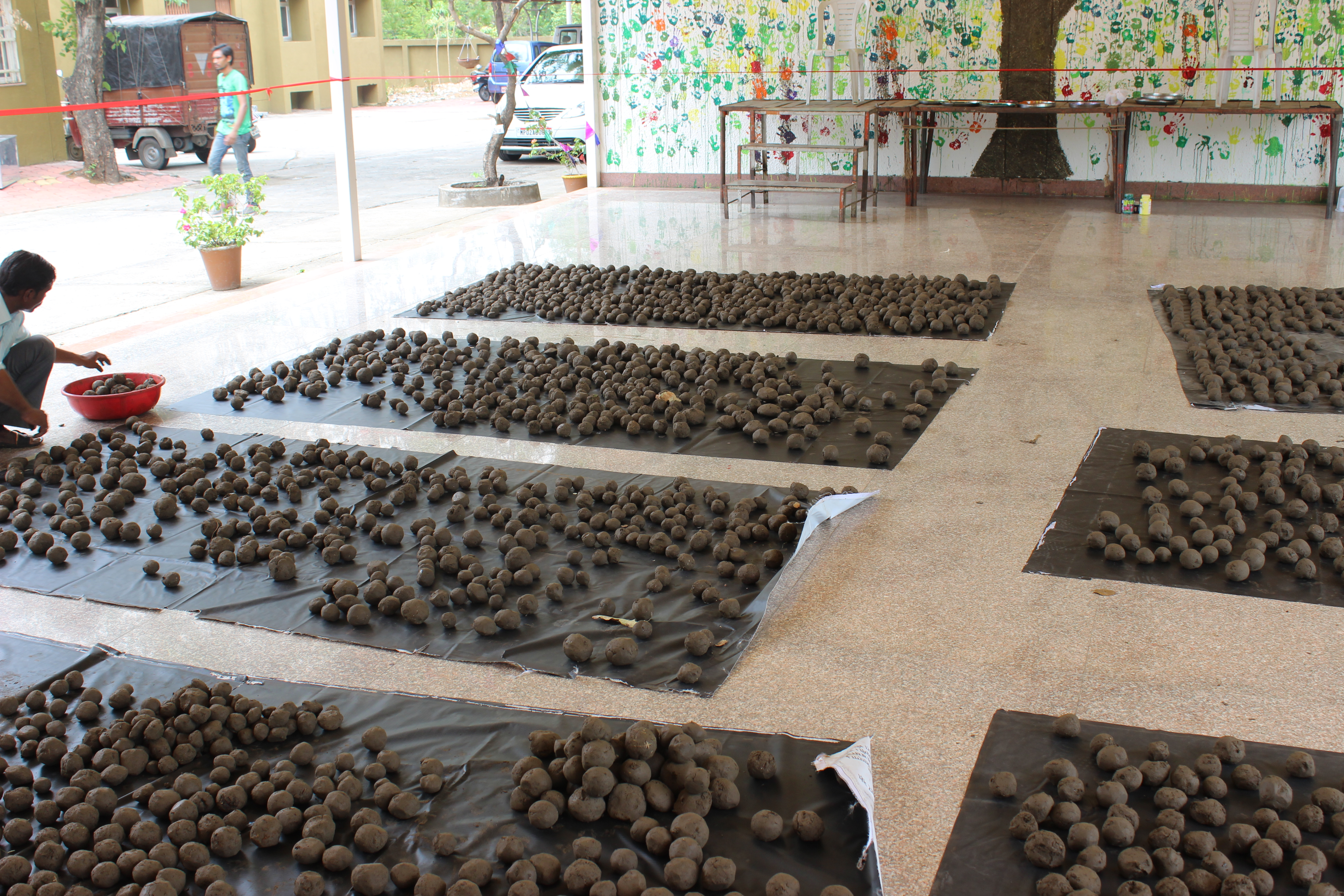 Activities for making Mud Seed ball in Bhopal